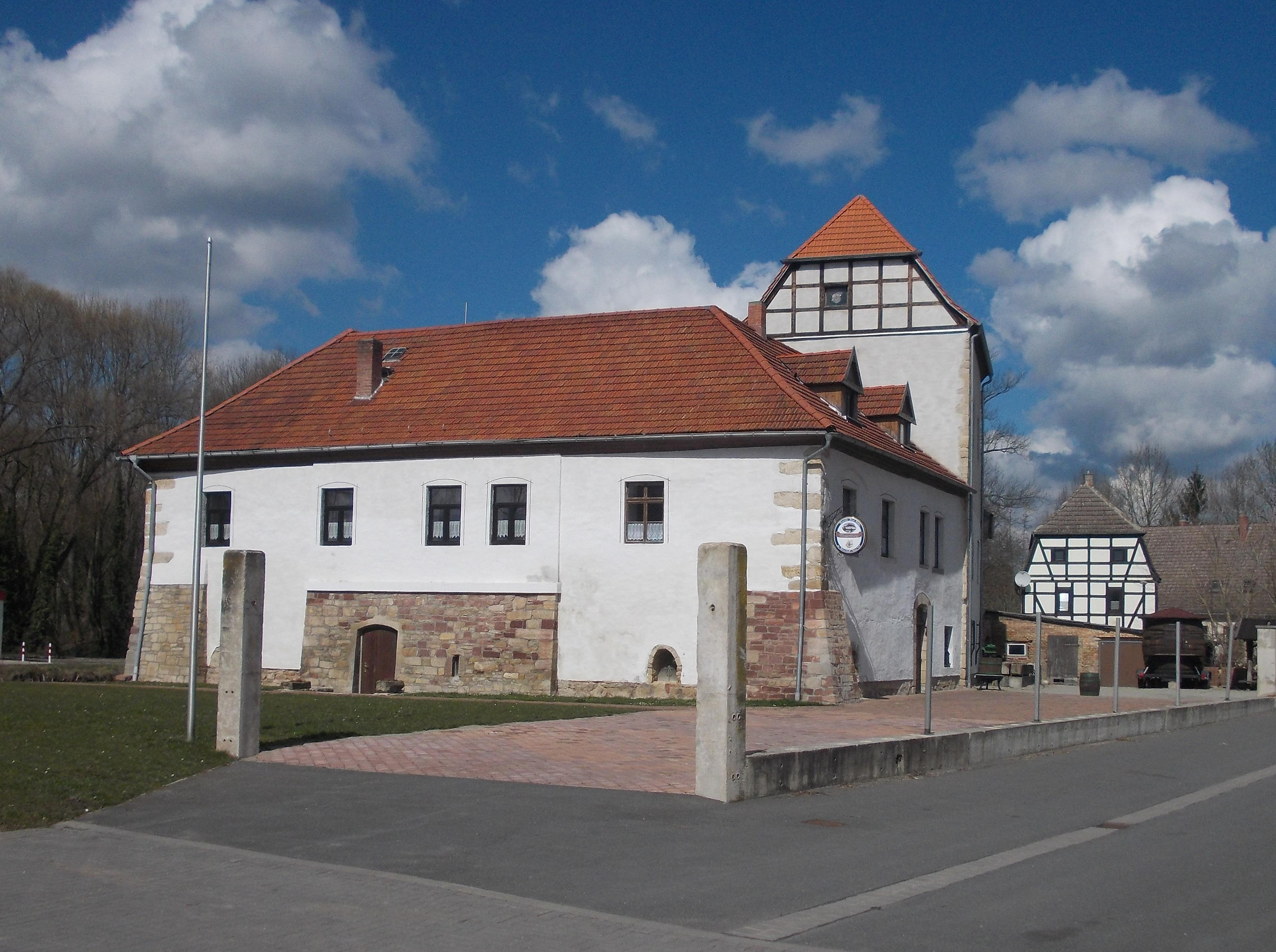 The water castle of Oberfarnstädt (Farnstädt, Saalekreis, Saxony-Anhalt)